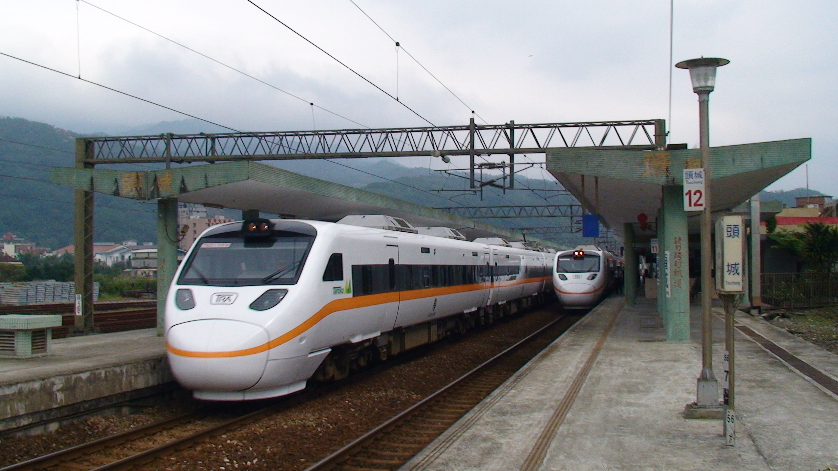 TRA Taroko waiting another one, LH: TED1008（U4）, RH: TED1002（U1）